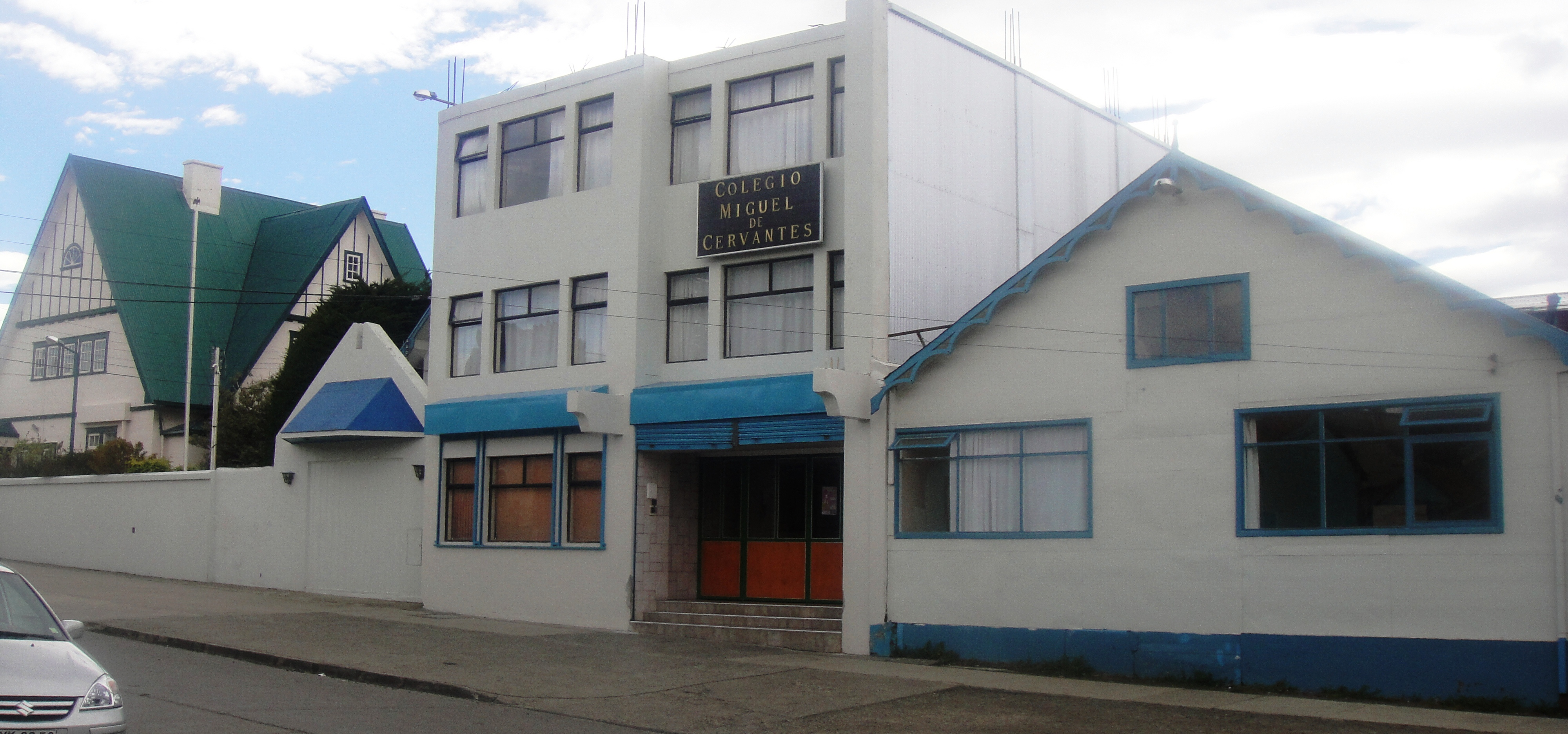 cmc